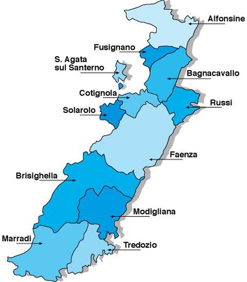 map of the Roman Catholic Italian diocese of Faenza-Modigliana